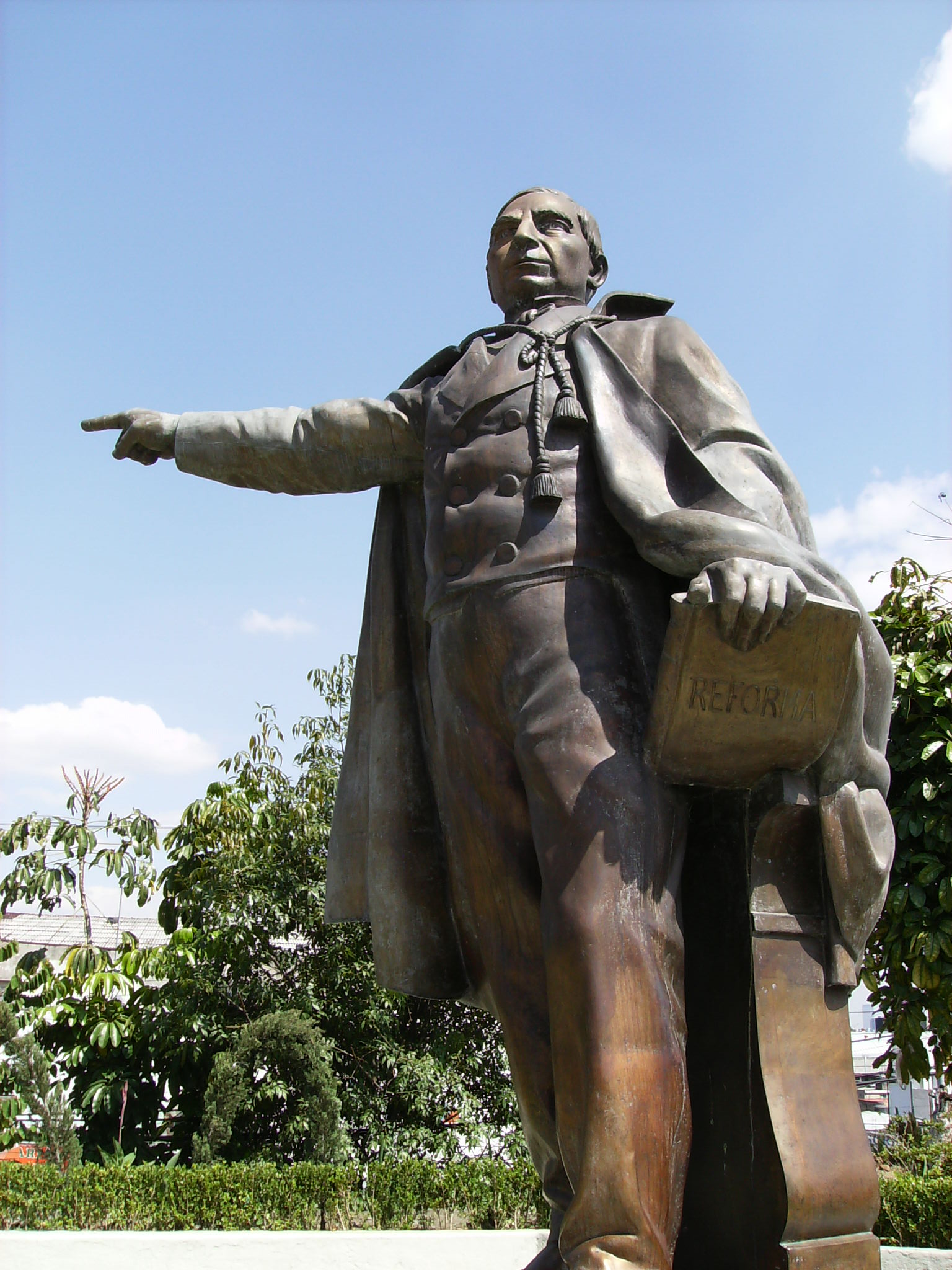 Benito Juárez sculpture in the main place of Naucalpan de Juárez.